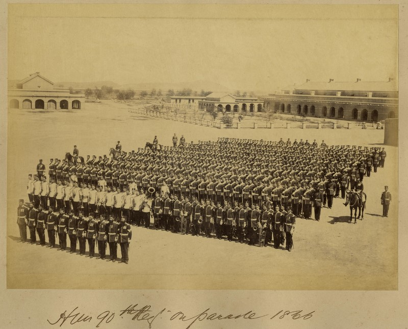 The 90th Regiment on parade, 1866; probably by Bourne and Shepherd Source: ebay, Sept. 2007